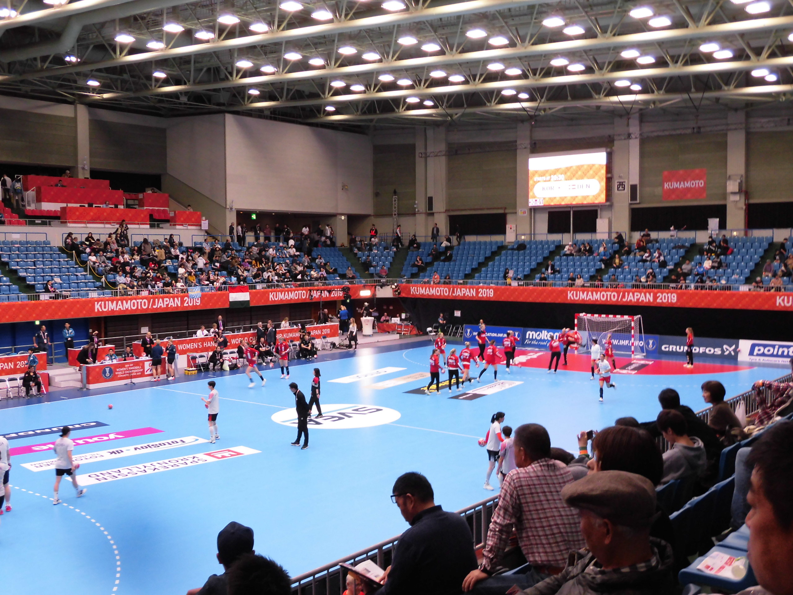 24th IHF Women's Handball World Championship Kumamoto 2019 Korea-Denmark